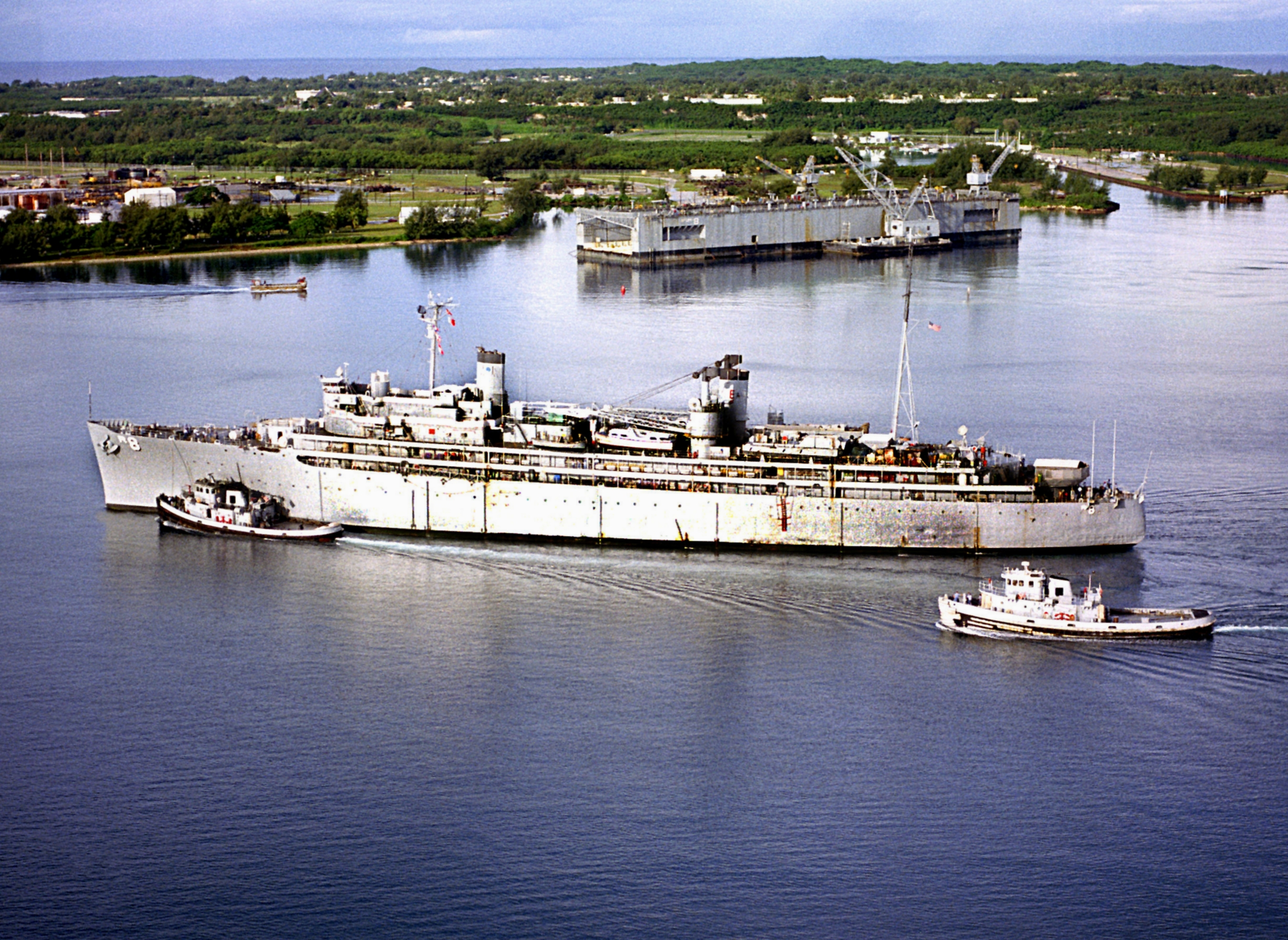 Tugs assist the U.S. Navy repair ship USS Jason (AR-8) at Apra harbor, Guam, in 1985.